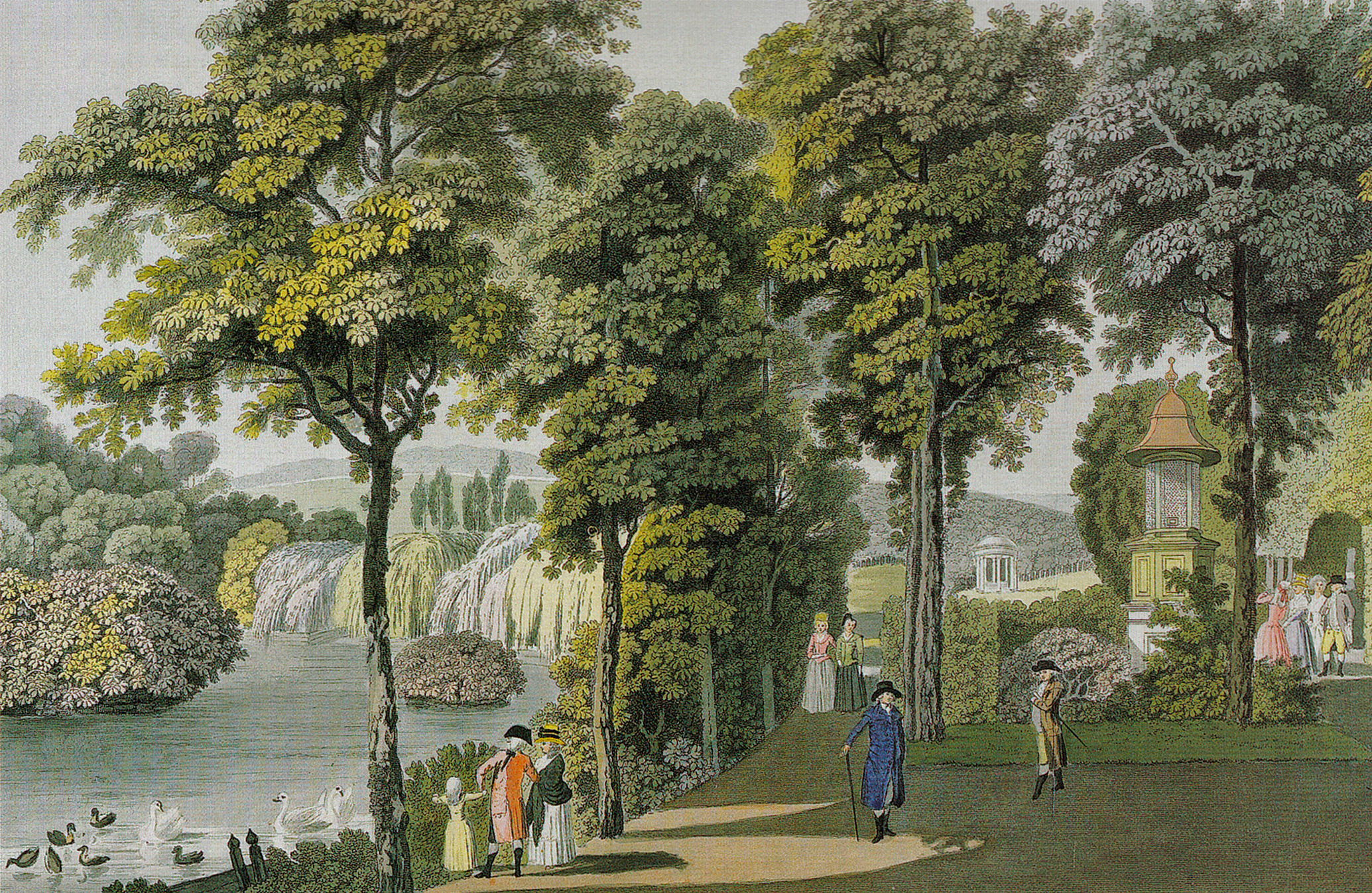 In the park of Neuwaldegg